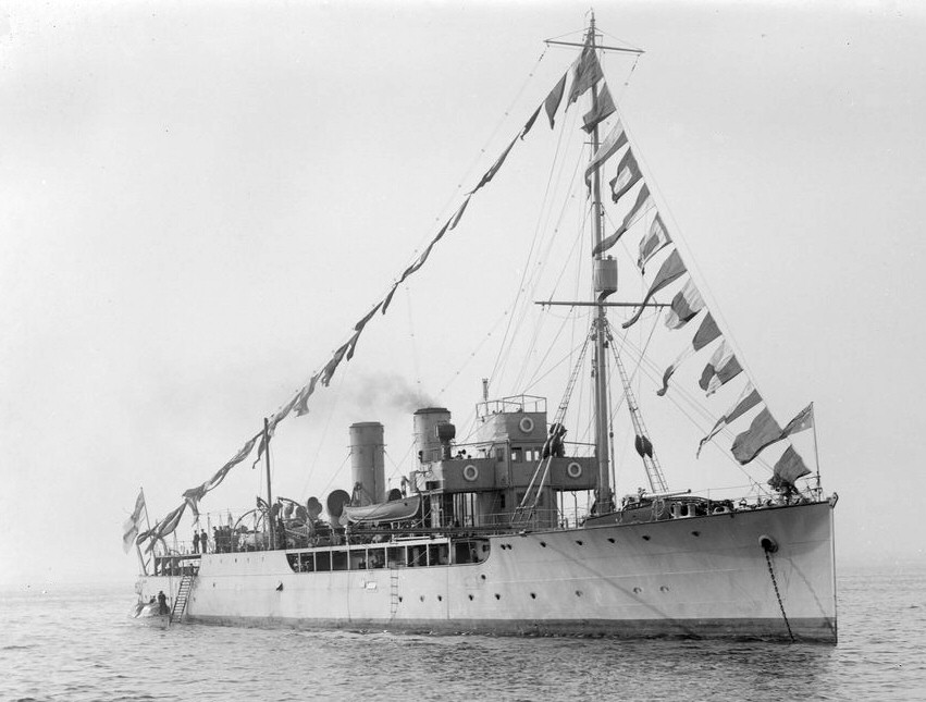 HMAS Geranium